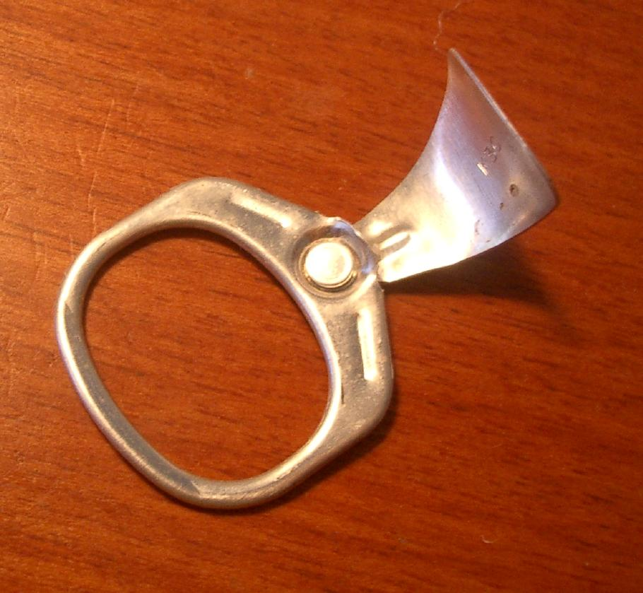 1970s Aluminium can ring pull